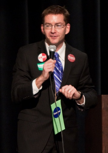 Minnesota State Senator D. Scott Dibble. Taken at SD60 DFL Convention at Washburn High School in Minneapolis.